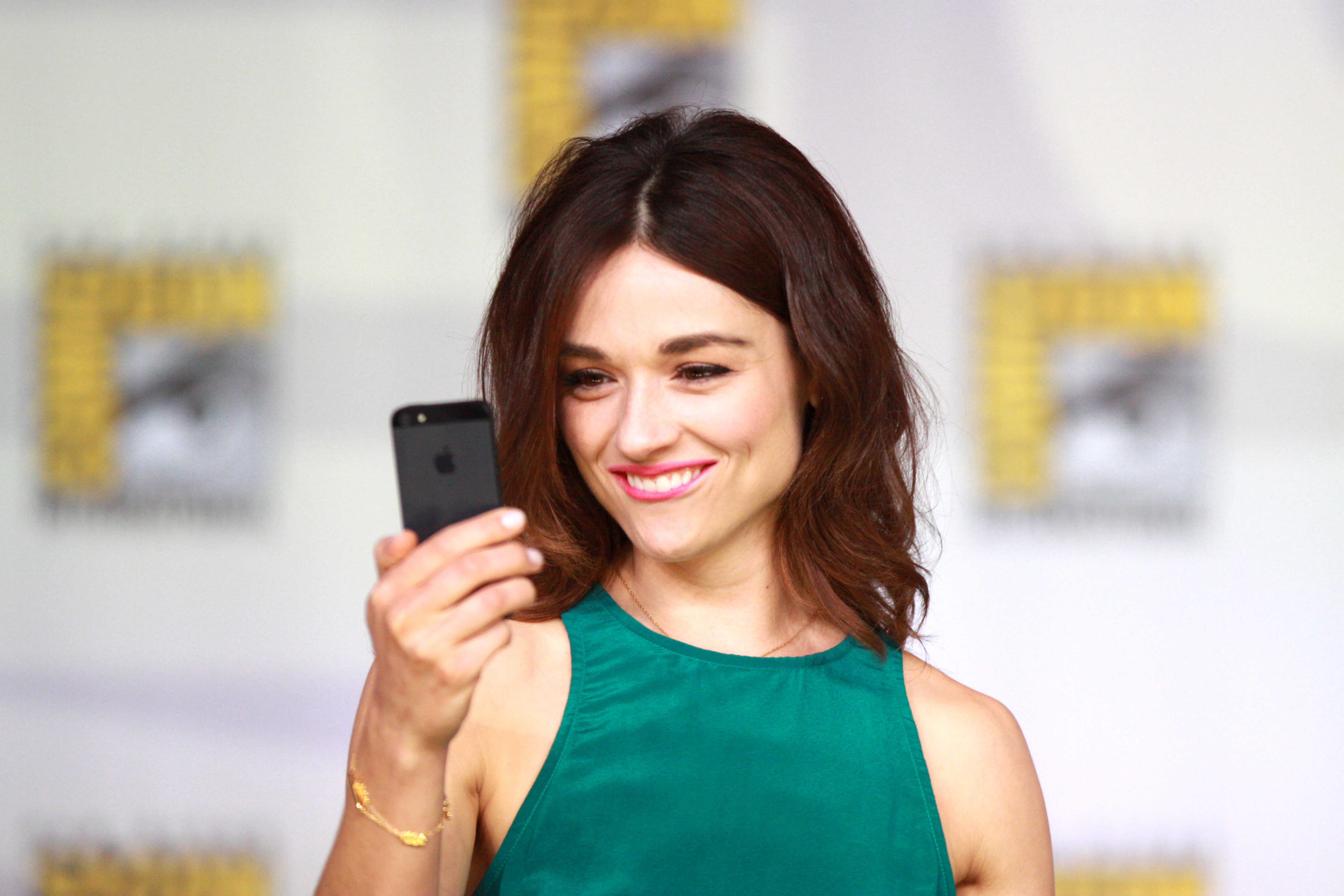 Crystal Reed speaking at the 2013 San Diego Comic Con International, for "Teen Wolf", at the San Diego Convention Center in San Diego, California.